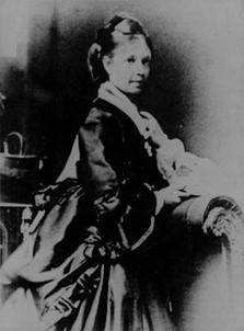 Image depicts victim of the 1899 Moat House Farm murder, Camille Holland. Subject is depicted circa 1870.